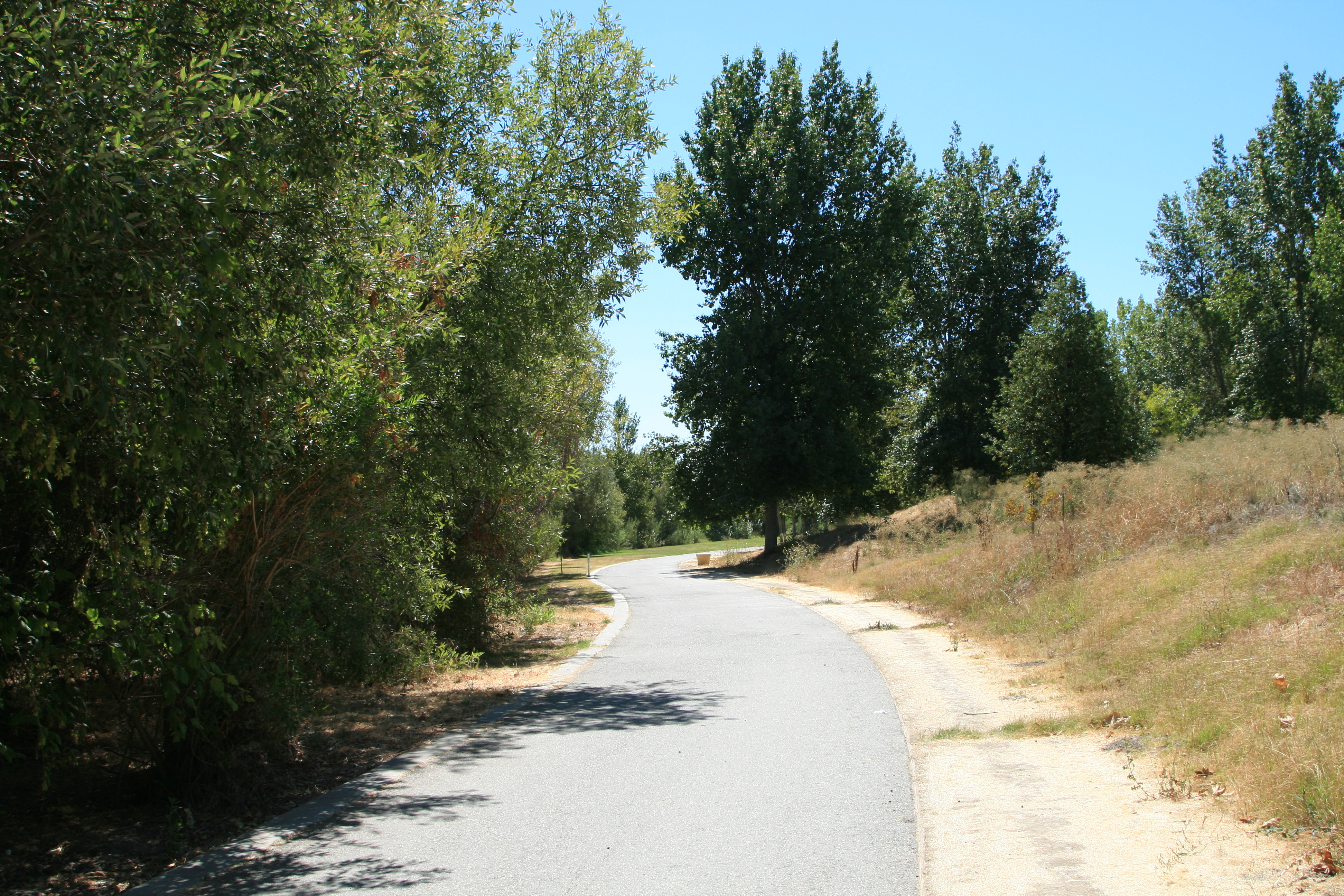 Guadalupe trail near downtown San Jose